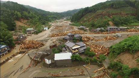 Akatani River was overflowed by the Northern Kyūshū Heavy Rain in Asakura City, Fukuoka Prefecture on July 7, 2017.